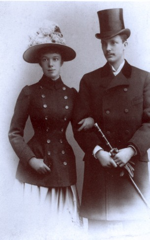 Archduchesse Maria Valeria of Austria, with her husband Archduke Franz Salvator of Österreich-Toscana